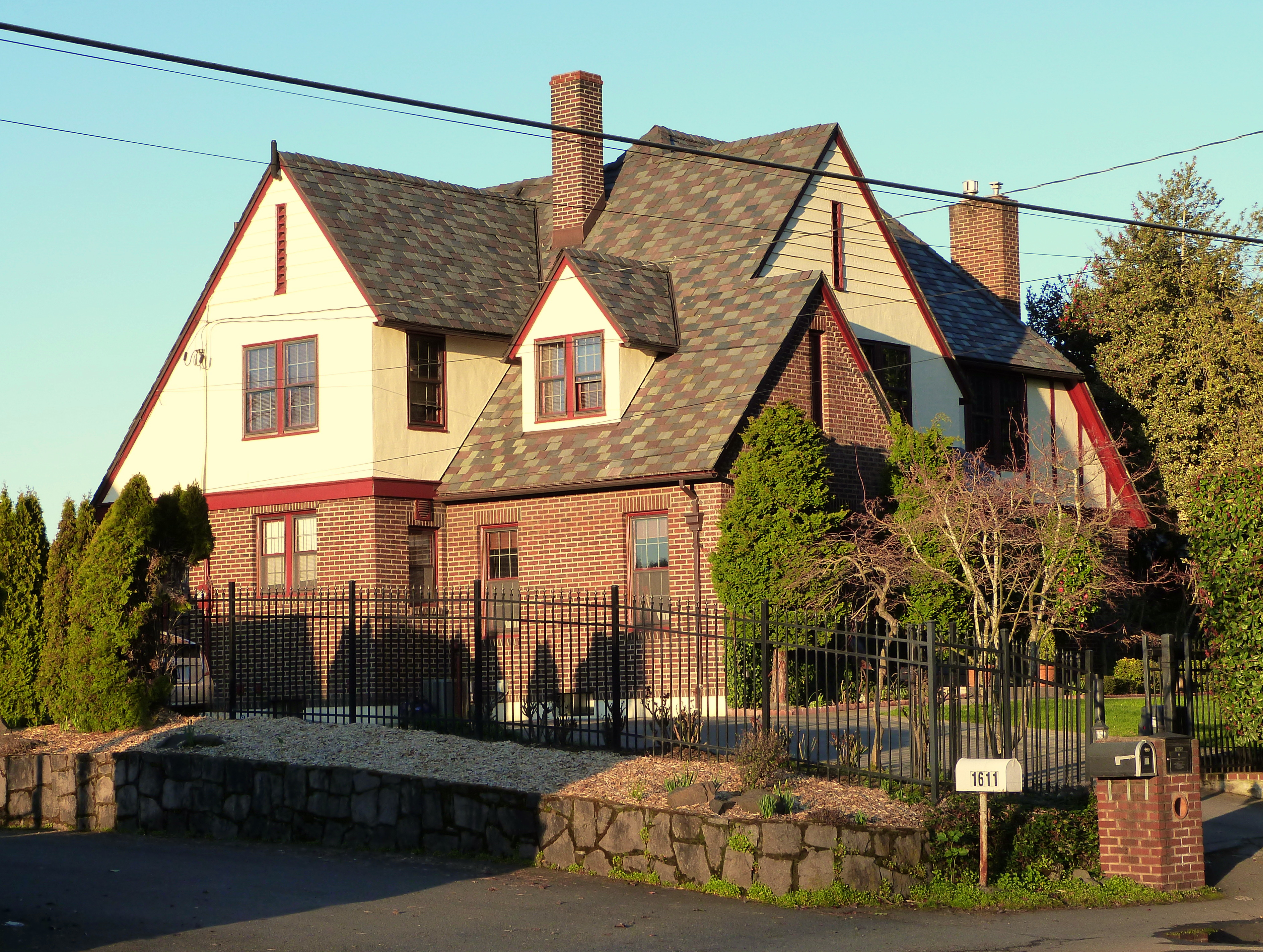 The historic Raymond and Catherine Fisher House (built 1929), located at 1625 Northeast Marine Drive in Portland, Oregon, United States, is listed on the US National Register of Historic Places.